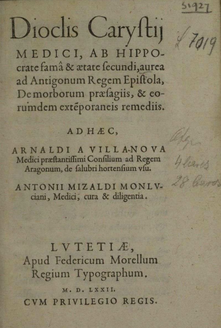 Title page of Dioclis Carystii ... Arnaldi de Villa-Nova ... 1572. Wellcome Library copy